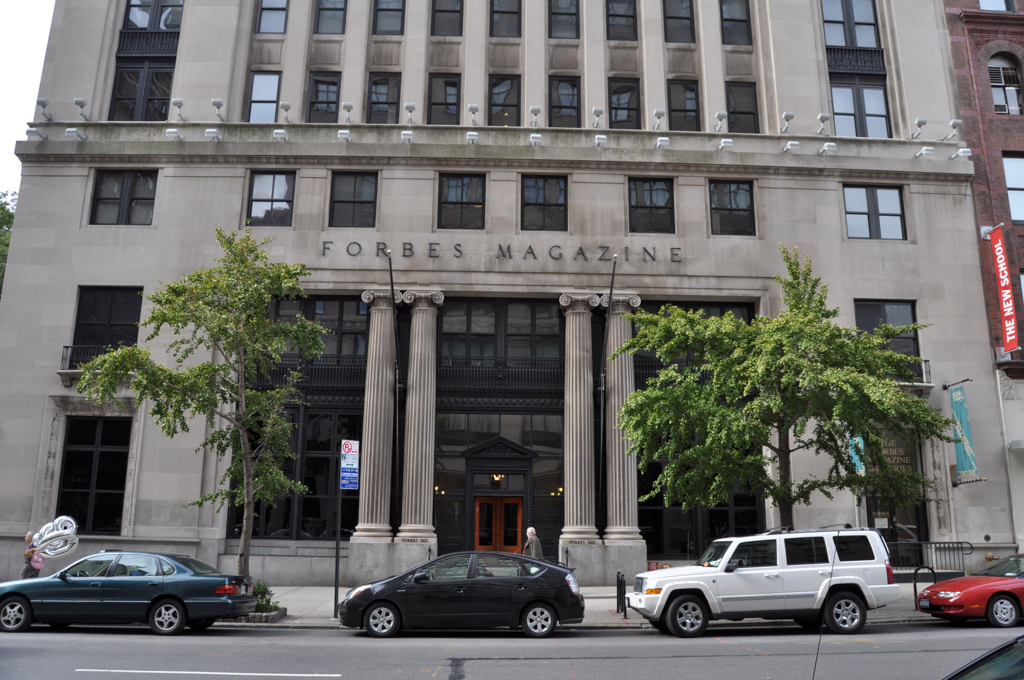 Forbes Galleries / Fortune magazine headquarters in New York City